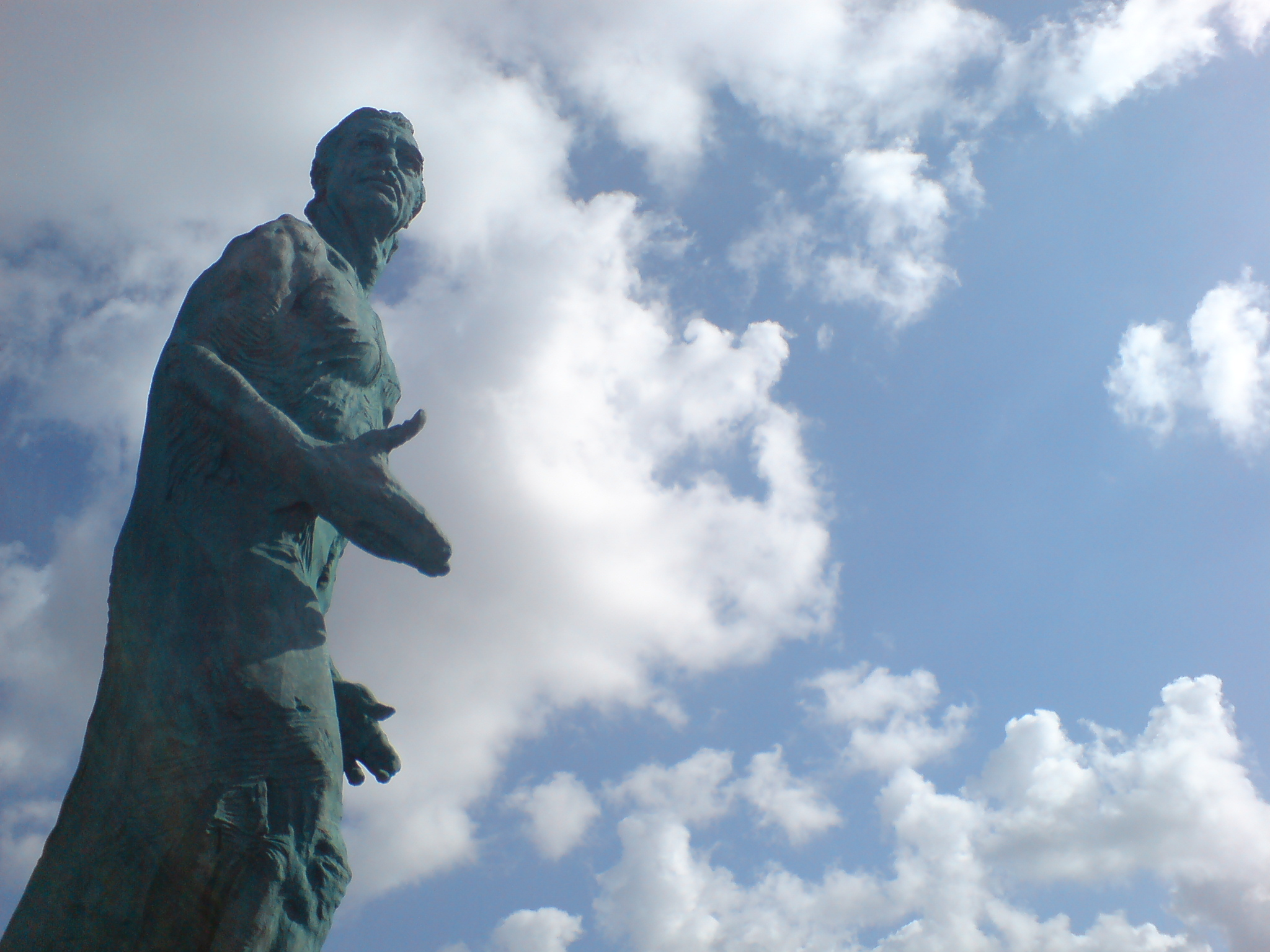 Monument to "Alfredo Kraus". Las Canteras Beach. Las Palmas de Gran Canaria. Canary Islands.